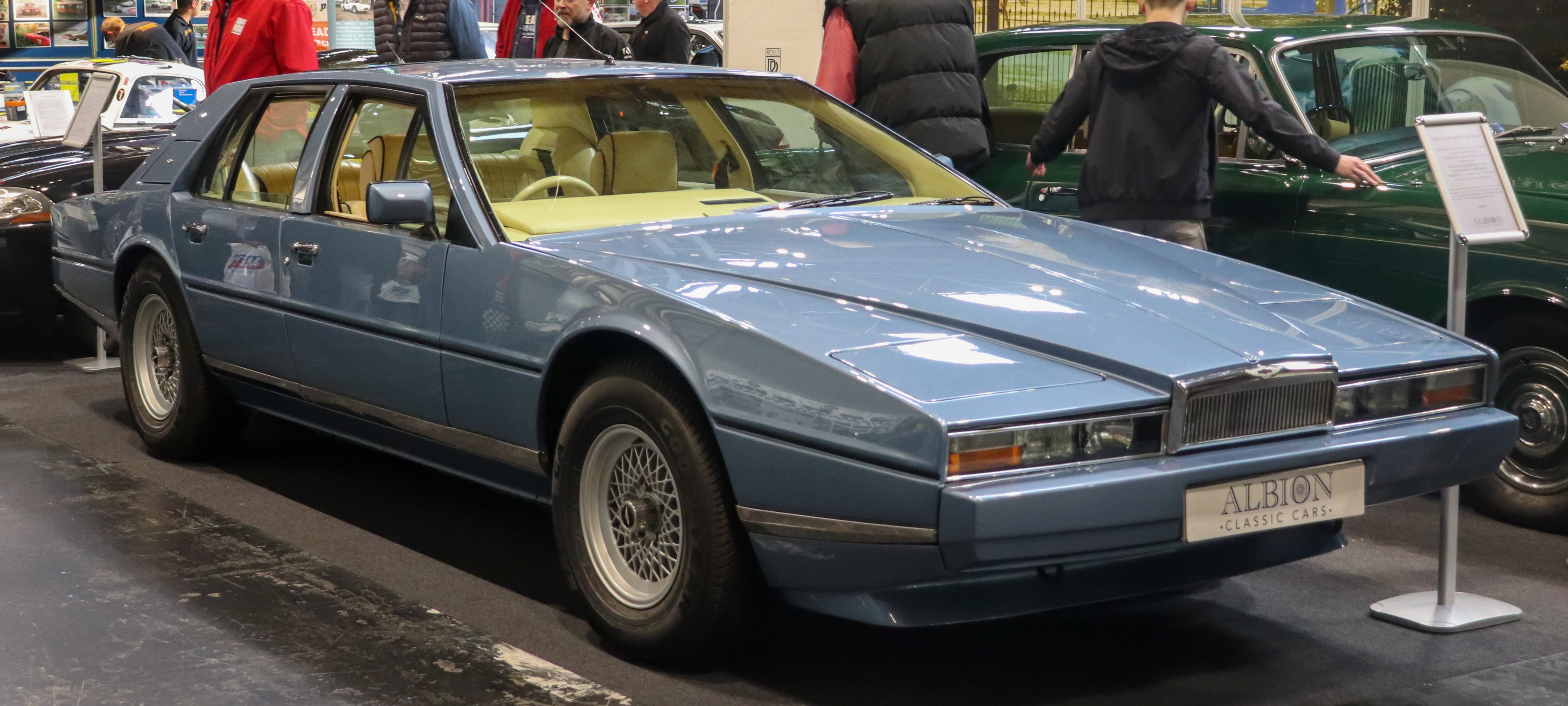 1986 Aston Martin Lagonda Series 3 Taken at the NEC Classic Motor Show 2019 [1]